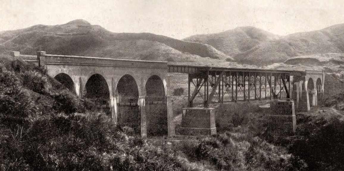 Gyo tō heida Railway Bridge in Formosa (Taiwan of Japanese era)